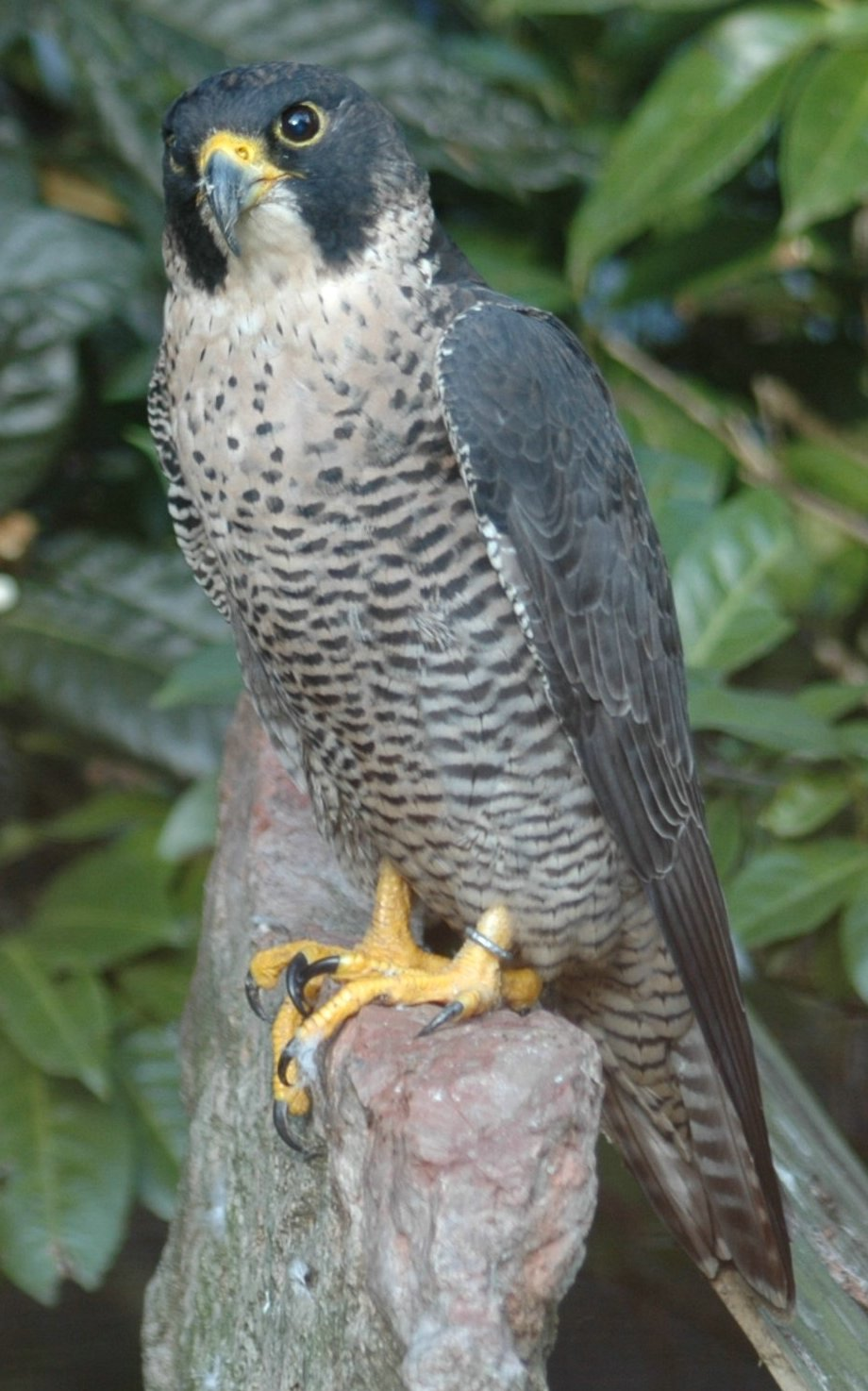 Cropped from PeregrineFalcon.jpg. Author: Francisco M. Marzoa Alonso. Taken on Covadonga, Asturias, Spain on October sv:2005